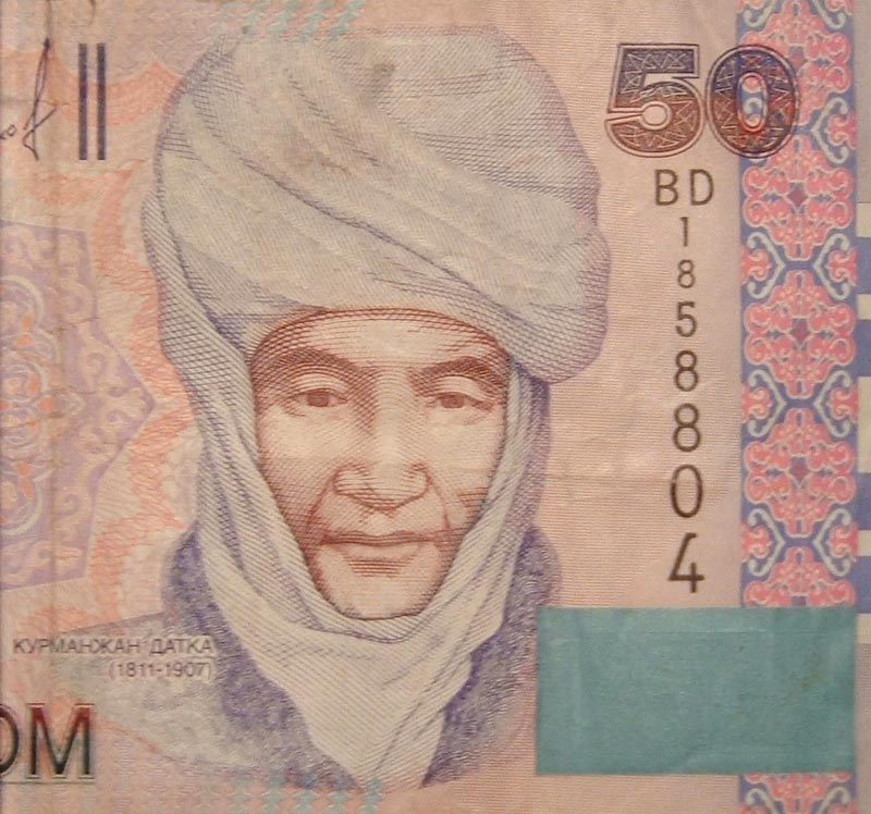 Description: Kurmanjan Datka, Kyrgyz stateswoman, as featured on the Kyrgyz 50 som note. Source: Image taken by hux. Date: May 24, 2006. Permission: Not required - public domain (see below)